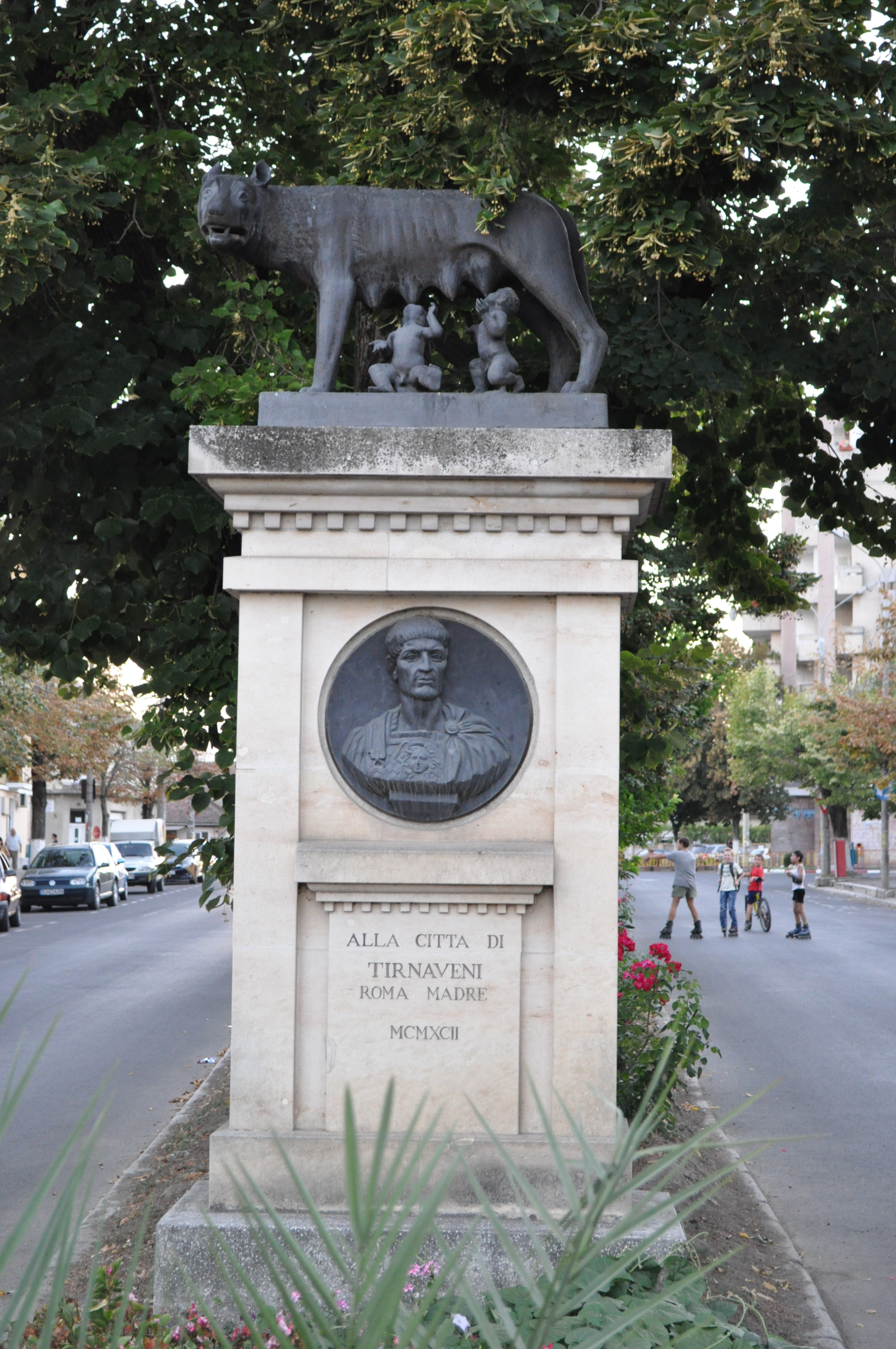 Statue, replica of Lupa Capitolina, located in Târnăveni